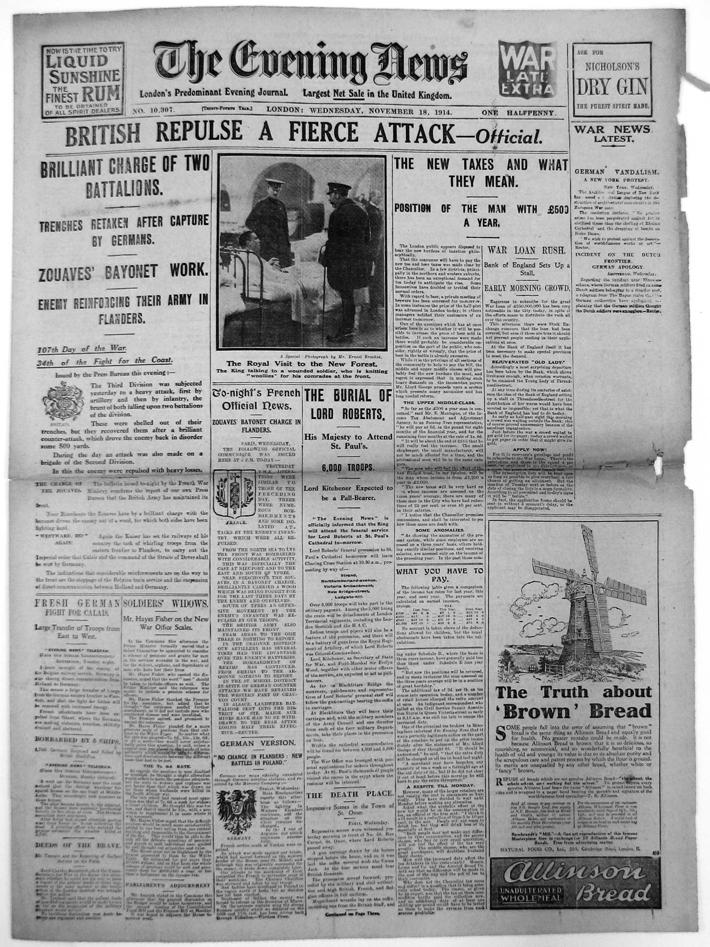 The cover of the Evening News